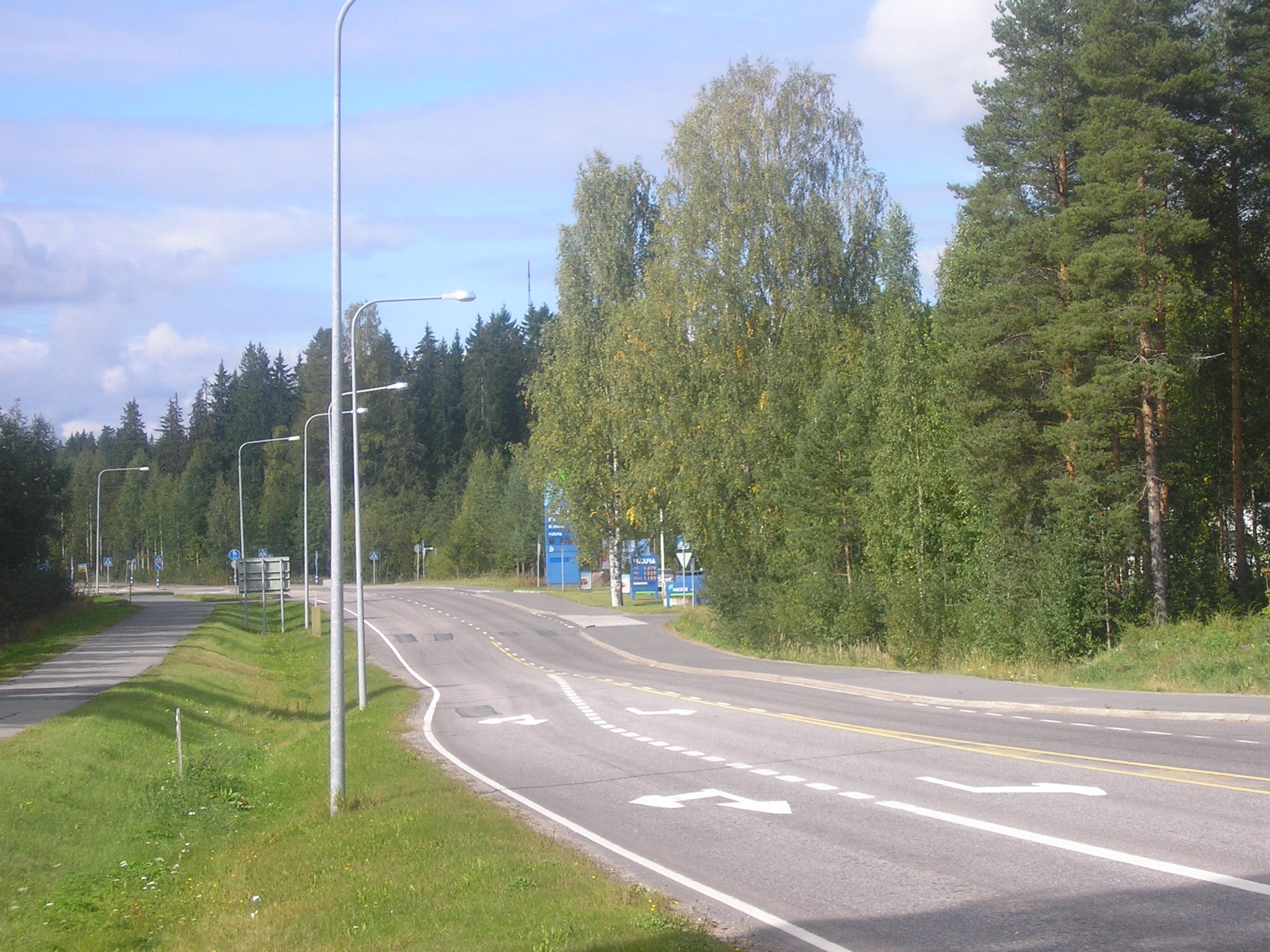 Connecting road 6110 in Keljonkangas, Jyväskylä, Finland